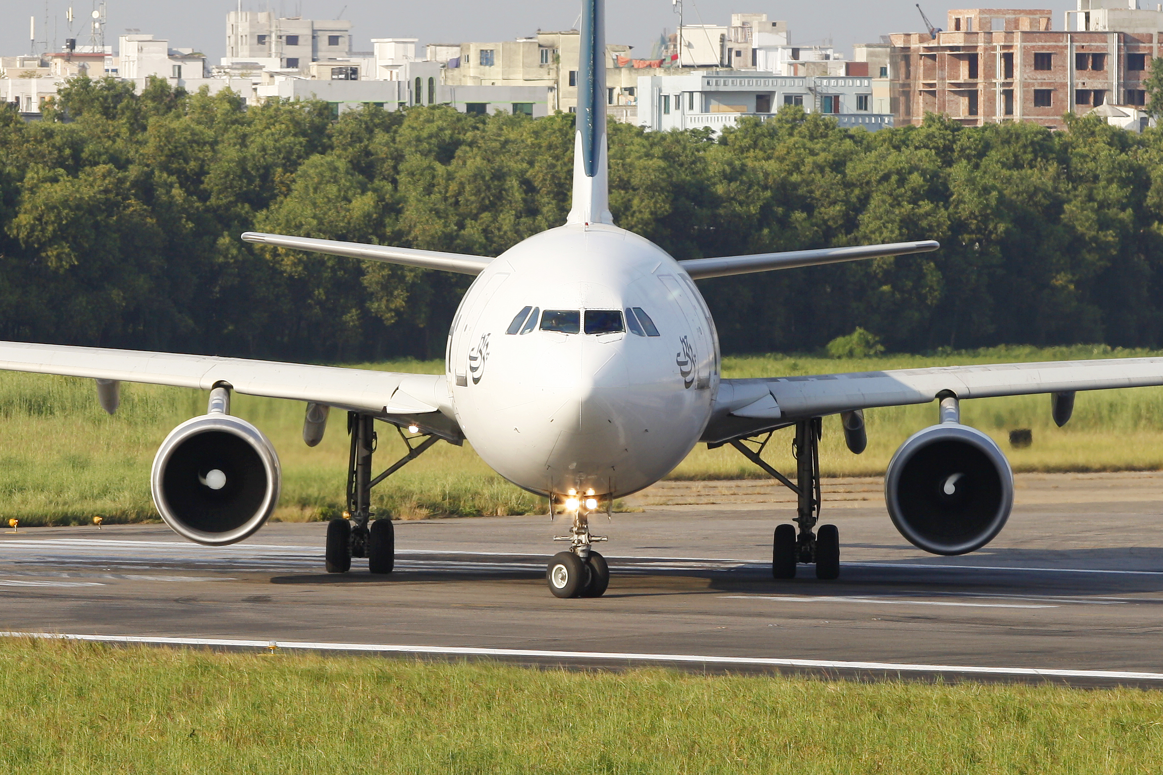 AP-BGR Airbus A310-325/ET PIA Pakistan International Airlines Lining Up for Take off at Hazrat Shahjalal International Airport Dhaka - VGHS / DAC